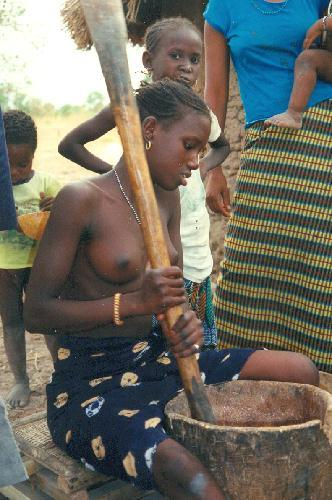 Nema, girl pounding grain